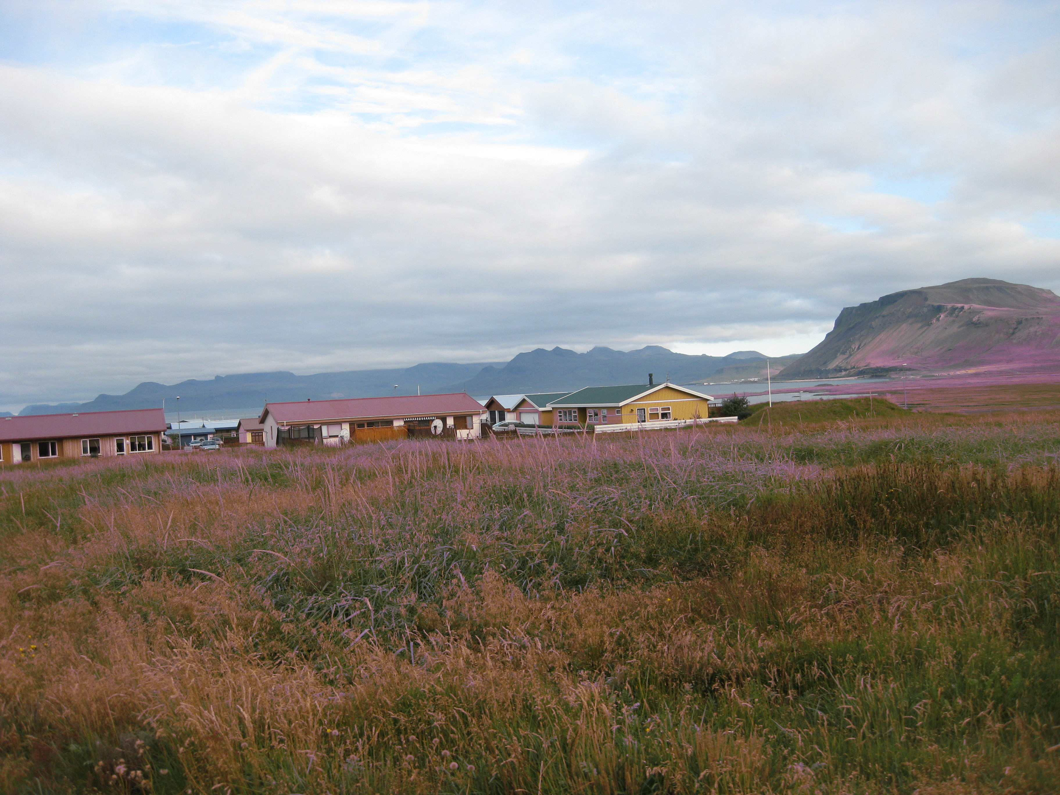 Rif is a part of Snæfellsær at Snæfellsnes , Iceland.